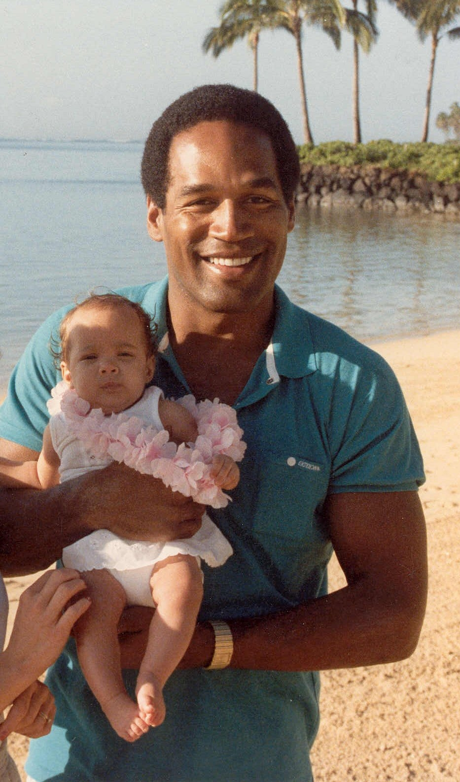 Football star/actor/accused murderer O.J. Simpson, with his daughter, Sydney Brooke Simpson, at the Kahala Hilton Hotel in Honolulu, Hawaii.